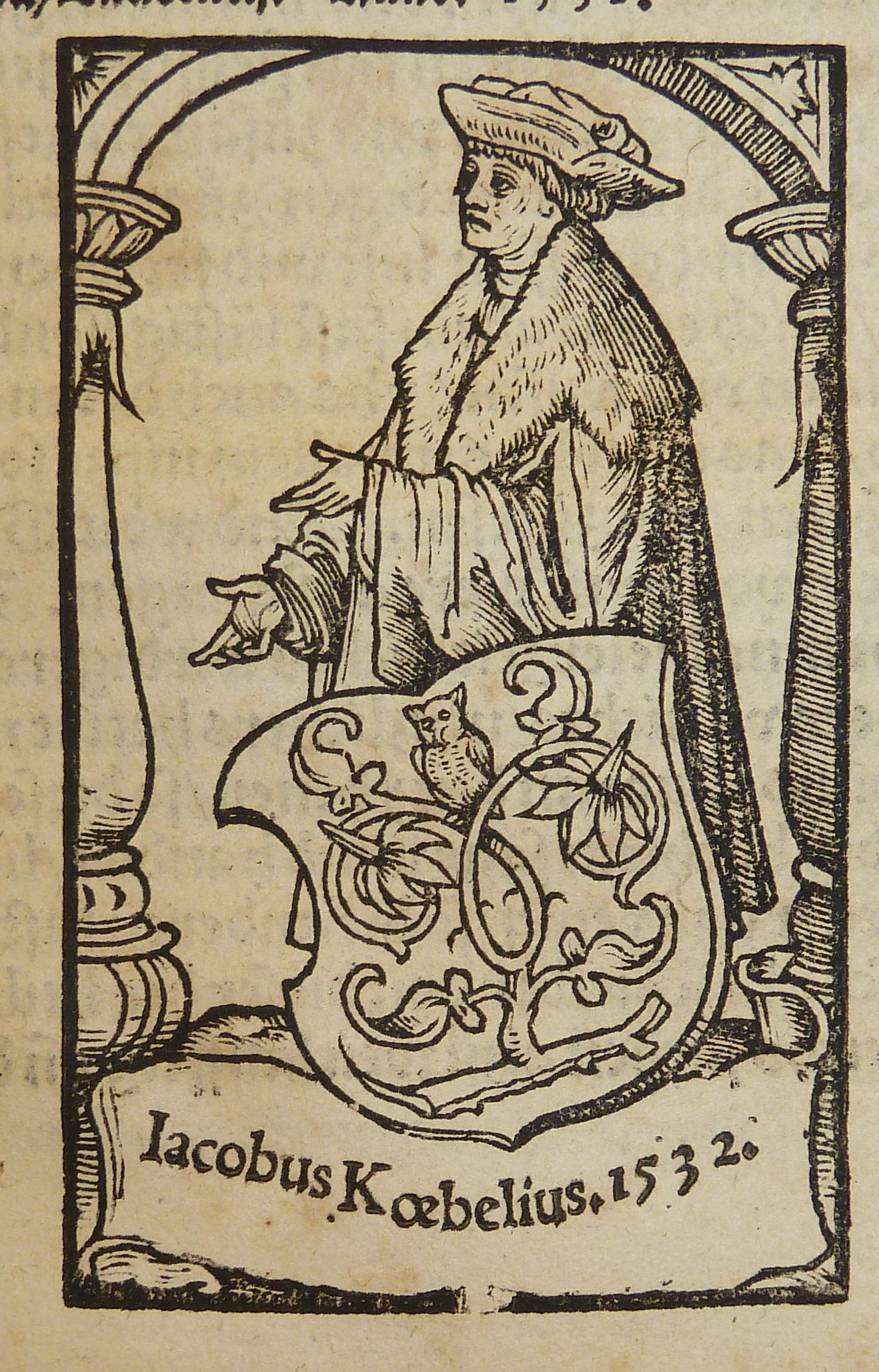 Woodcut portrait of Jakob Köbel (ca. 1462-1533), protonotary of Oppenheim, printer/publisher, mathematician and author, with his arms.